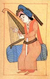 Çeng. This is the photo of a miniature over 100 years old who's author is unknown. The instrument in the picture is not made since 17th century and the miniature was made before 17th century.